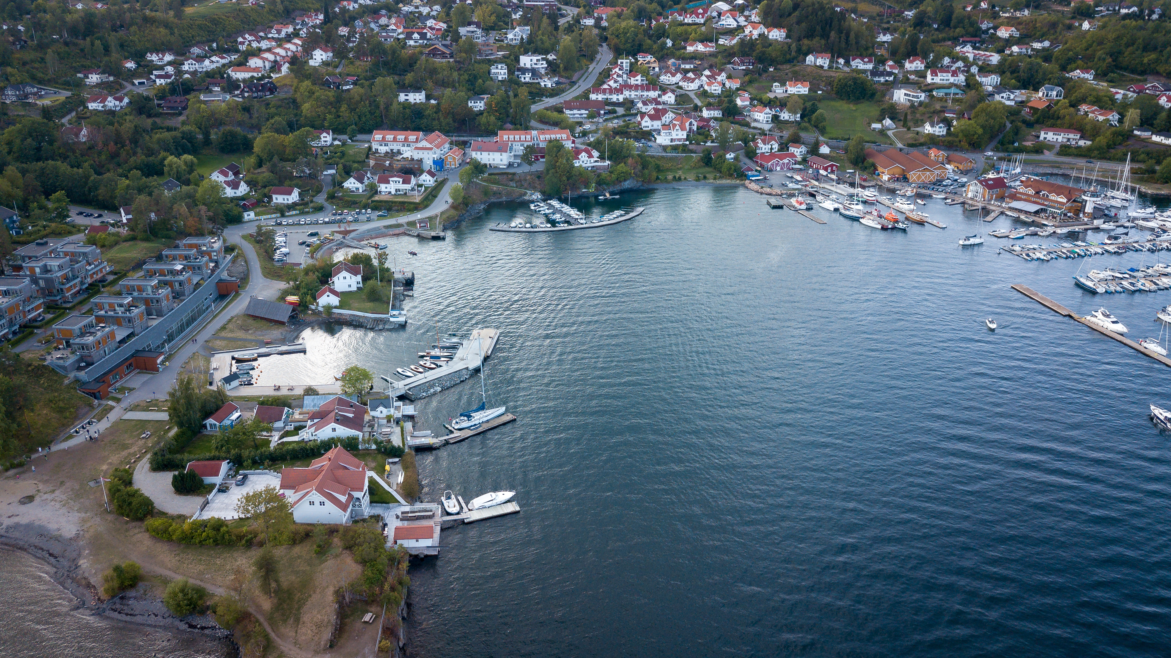 Aerial photograph of Vollen in Asker.